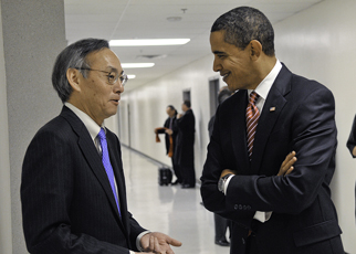 Secretary of Energy Steven Chu (left) meeting with President Barack Obama (right).